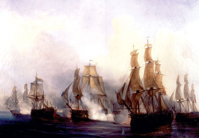 French ship Pluton at Trafalgar